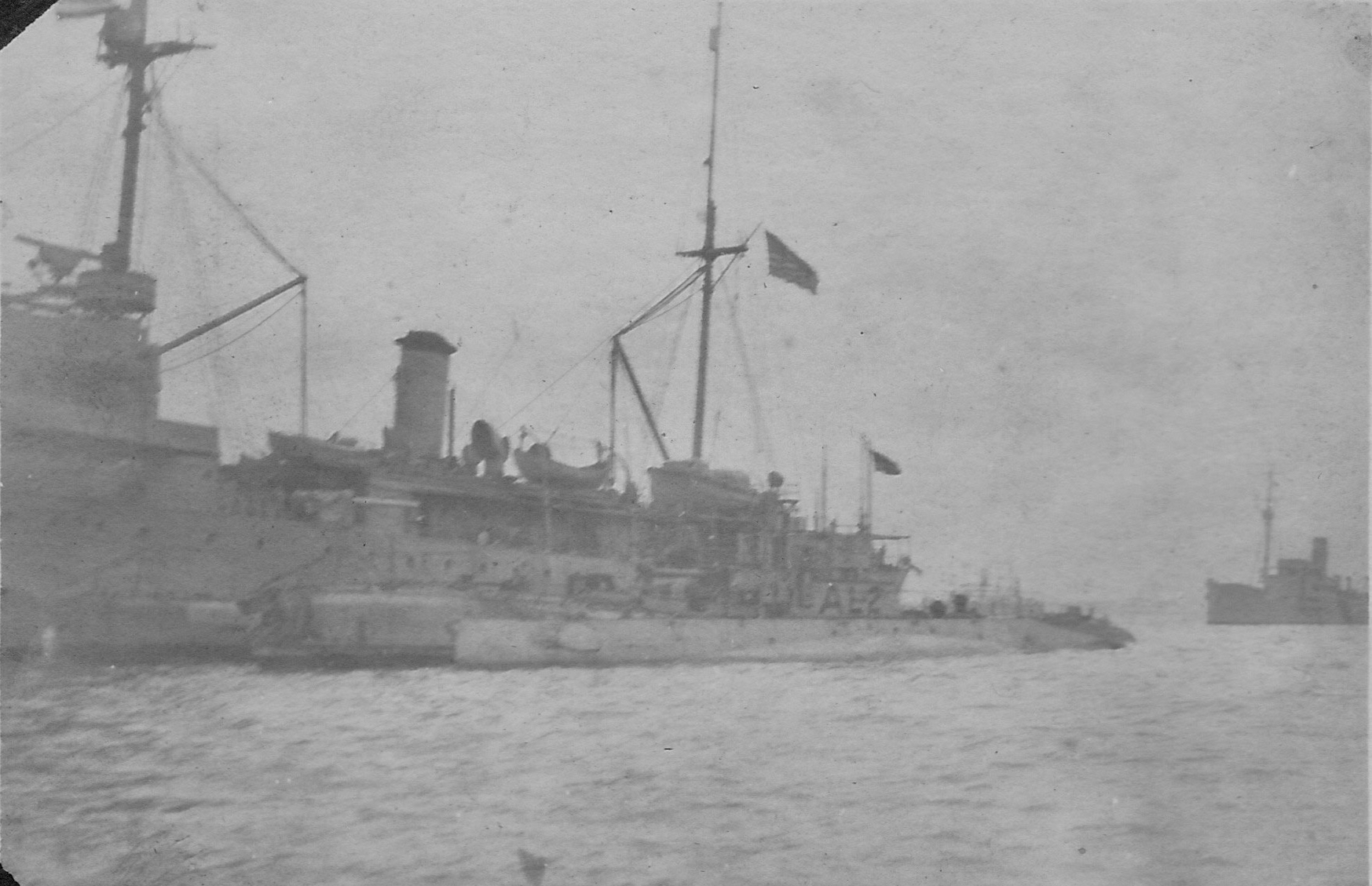 Photo of the American submarine tender USS Bushnell (AS-2) with a captured German U-boat alongside, somewhere in the UK during WWI/1918. The location could be Queenstown (now Cobh), Ireland, or Invergordon, Scotland.